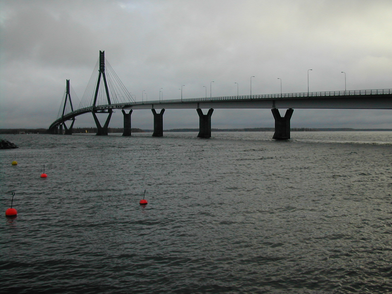 Picture of the Replot Bridge in Korsholm (fi: Mustasaari)